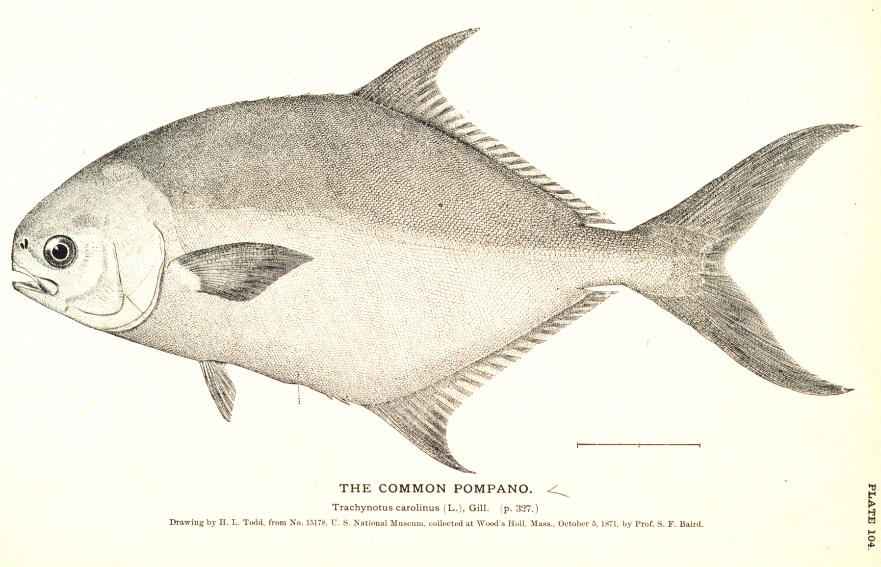 A common pompano, Trachinotus carolinus